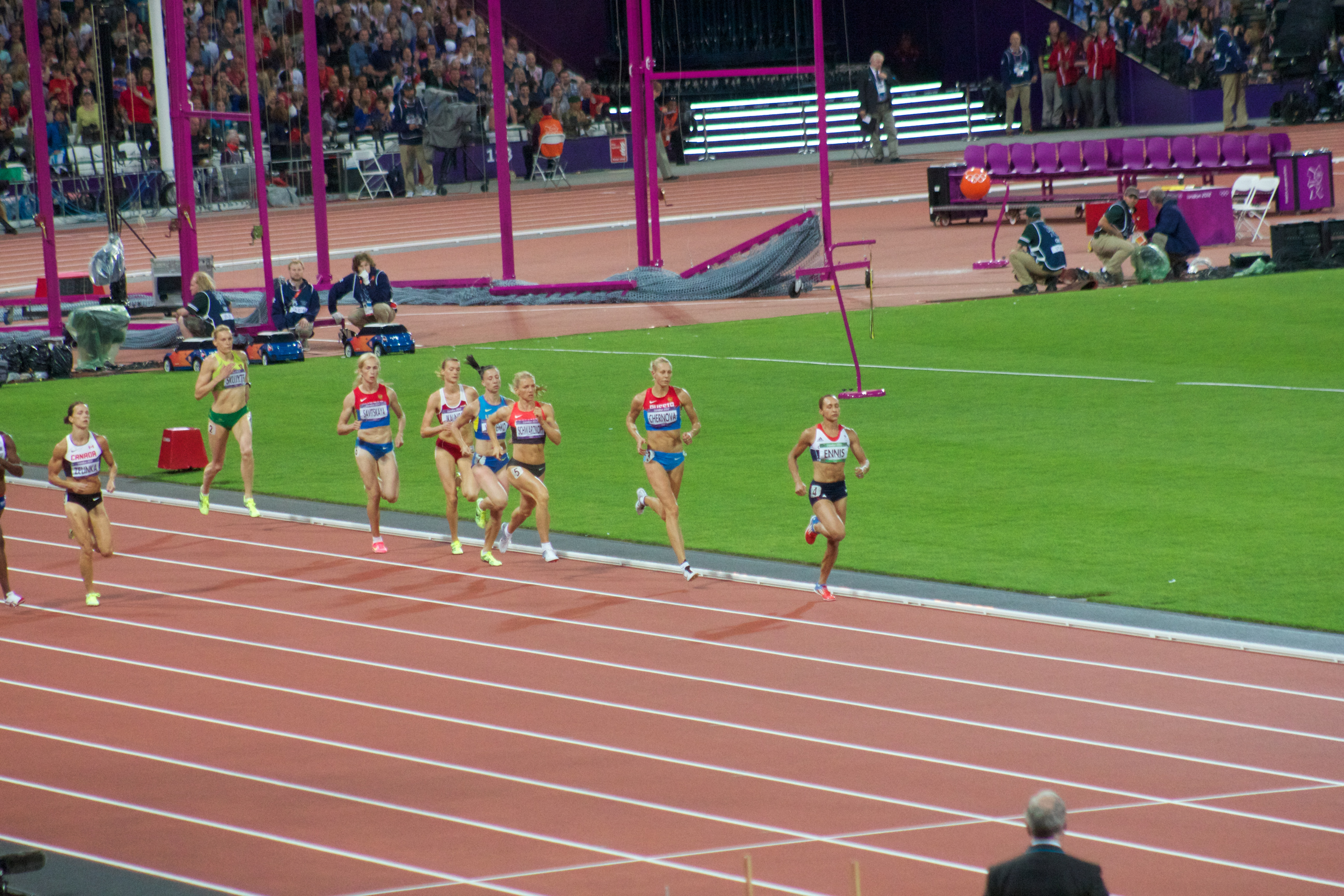 Women's Heptathlon 800m - Jessica Zelinka, Austra Skujytė, Kristina Savitskaya, Laura Ikauniece, Lyudmyla Yosypenko, Lilli Schwarzkopf, Tatyana Chernova, Jessica Ennis back straight, first lap